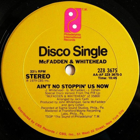 A-side track label of the US 12-inch vinyl release "Ain't No Stopping Us Now" by McFadden & Whitehead